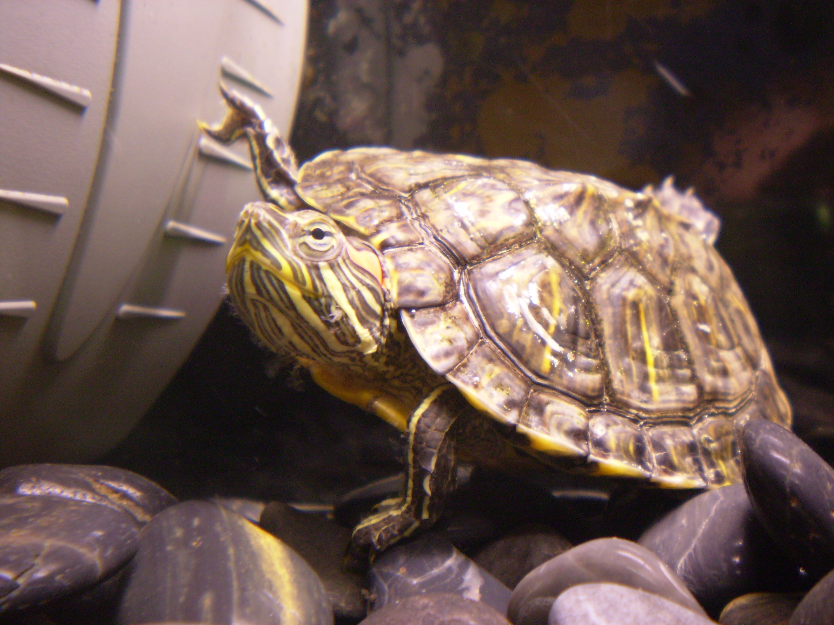 6 years old red-eared slider